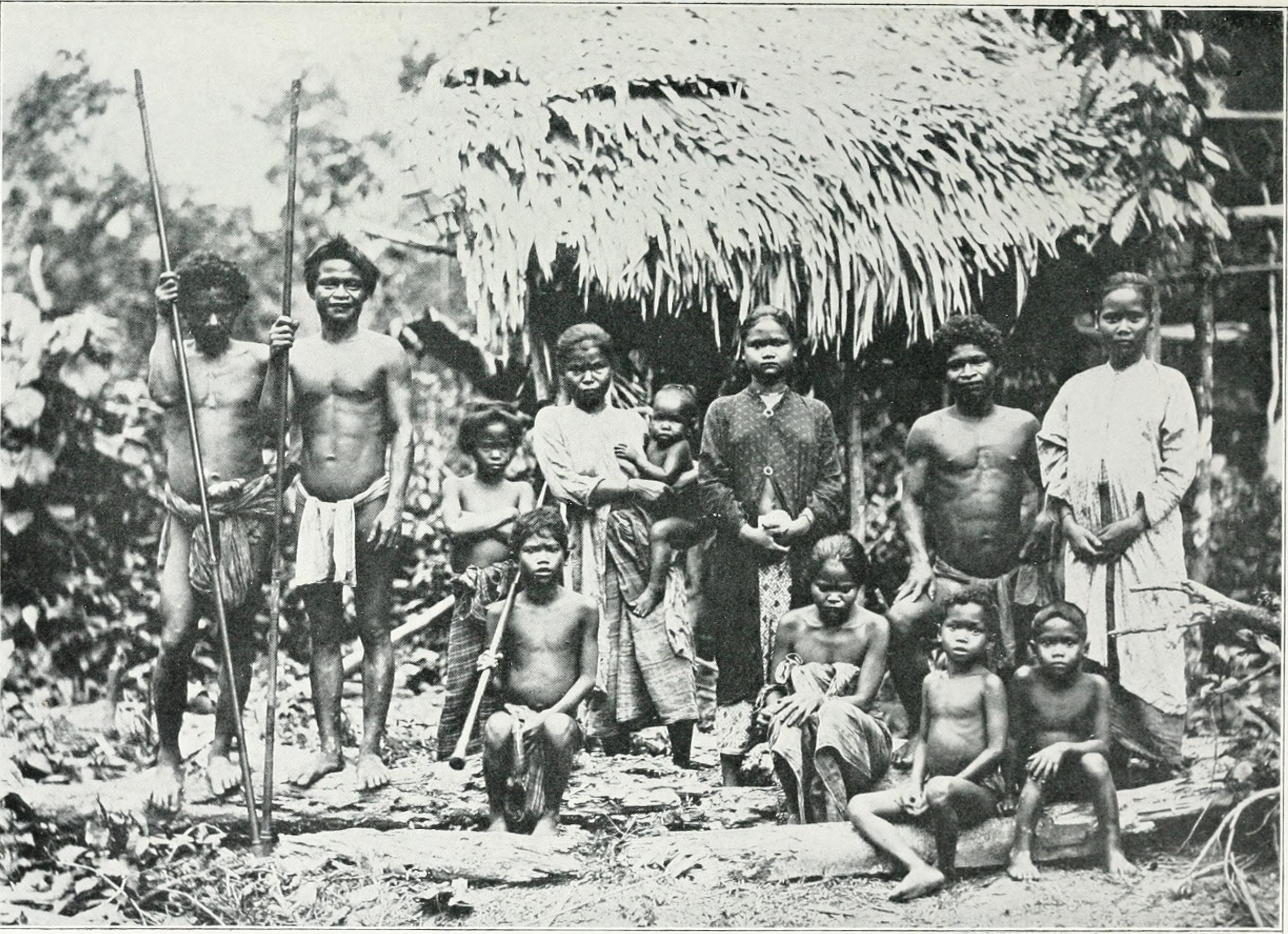 Title: Pagan races of the Malay Peninsula Year: 1906 (1900s) Authors: Skeat, Walter William, 1866- Blagden, Charles Otto, 1864-1949 Subjects: Ethnology -- Malay Peninsula Malays (Asian people) Malay Peninsula -- Social life and customs Malay Peninsula -- Religion Malay Peninsula -- Aboriginal dialects Publisher: London : Macmillan and Co., limited (etc., etc.) Text Appearing Before Image: 802 Text Appearing After Image: 8o3